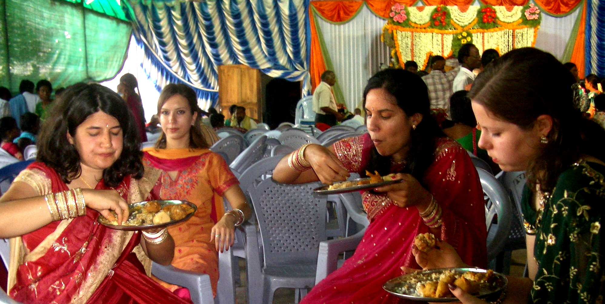 Etiquette Indian dining, marriage meals, India food